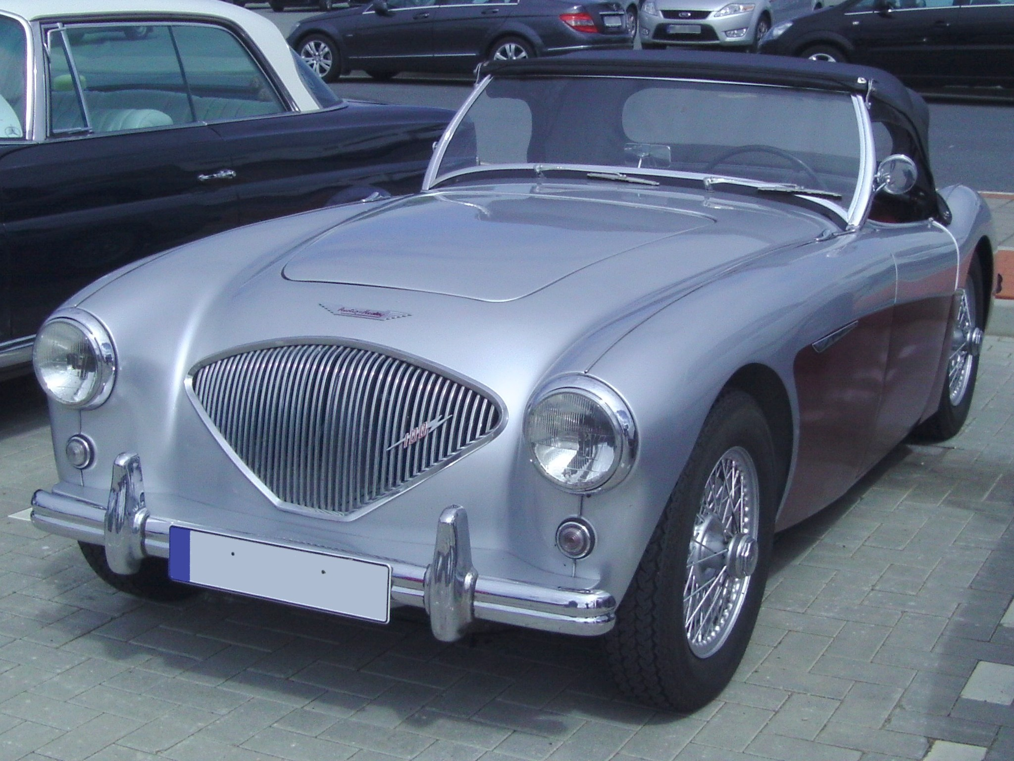 An Austin-Healey 100